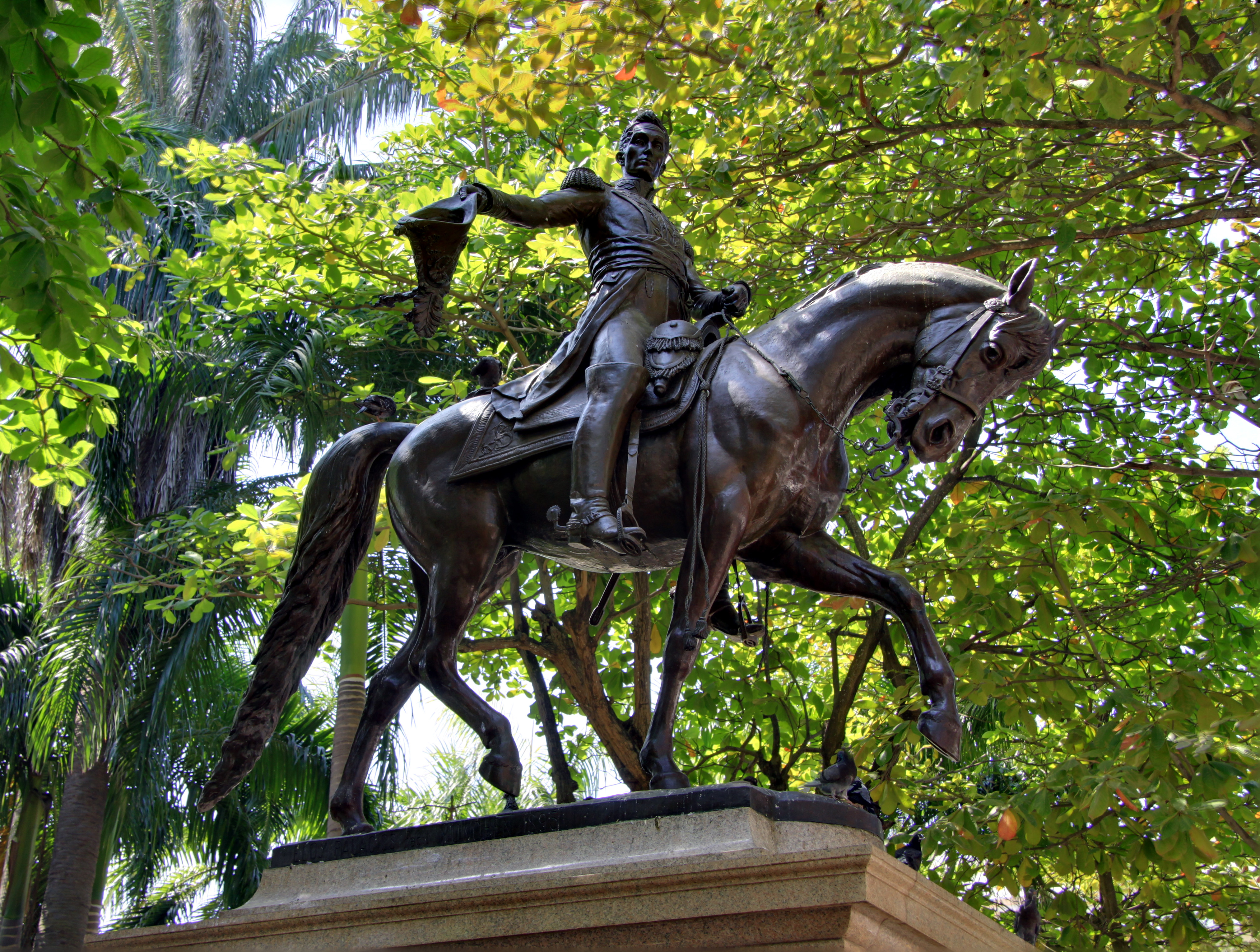 Please, have this description accessible to all by translating it in different languages.